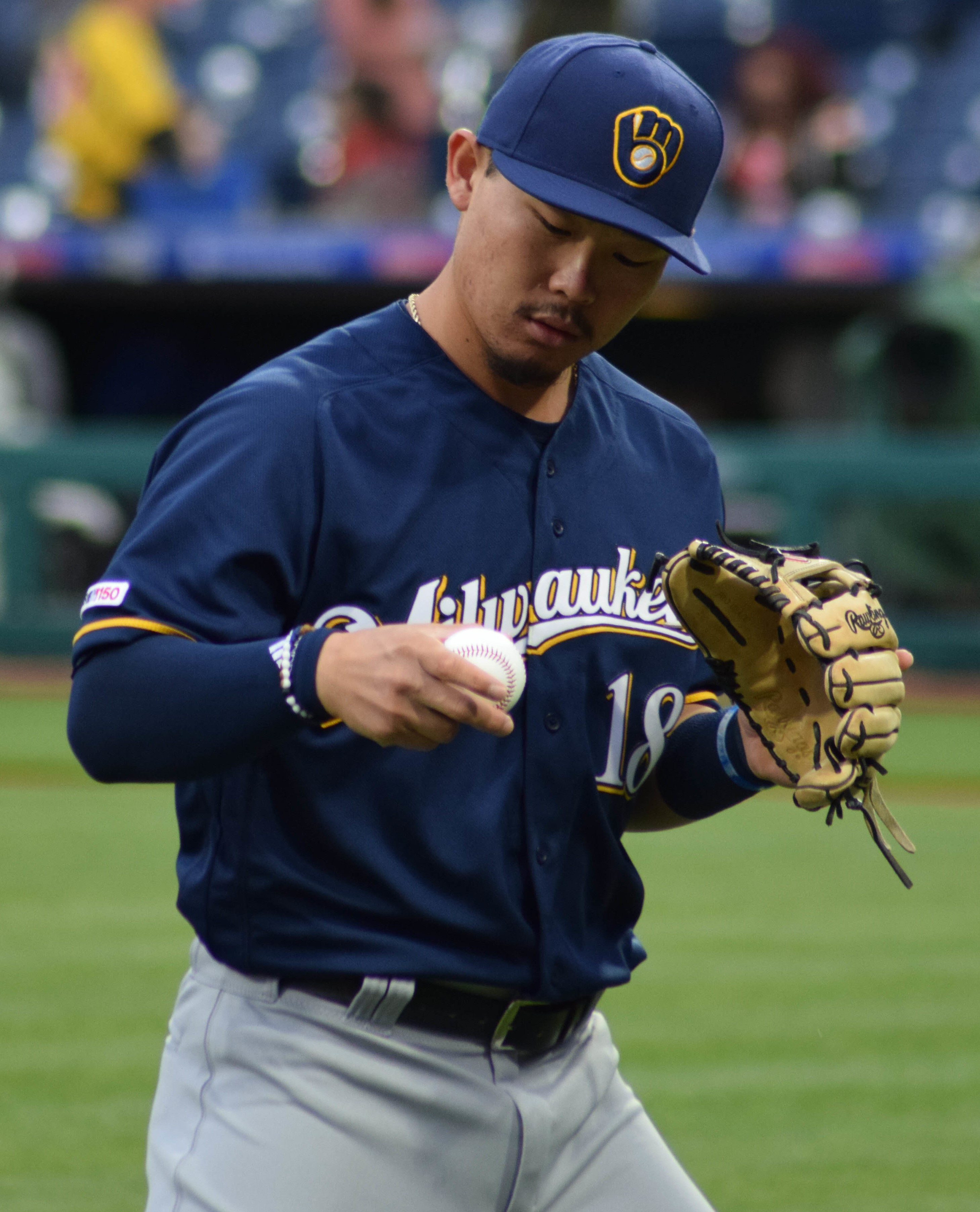 Keston Hiura of the Milwaukee Brewers at Citizens Bank Park in Philadelphia in 2019